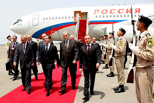 Arrival in Baku.